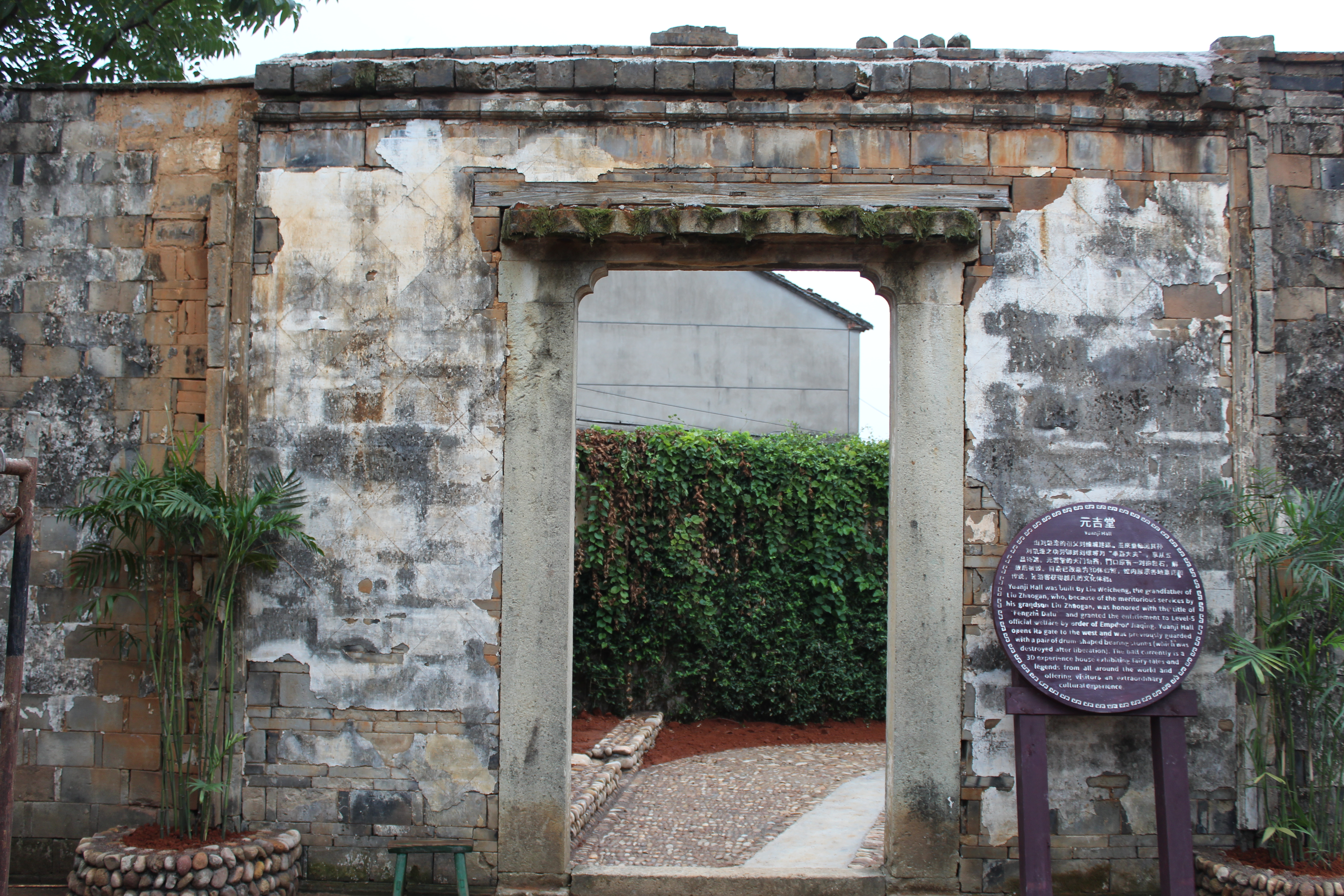 Photo of a historical building in Shangjing